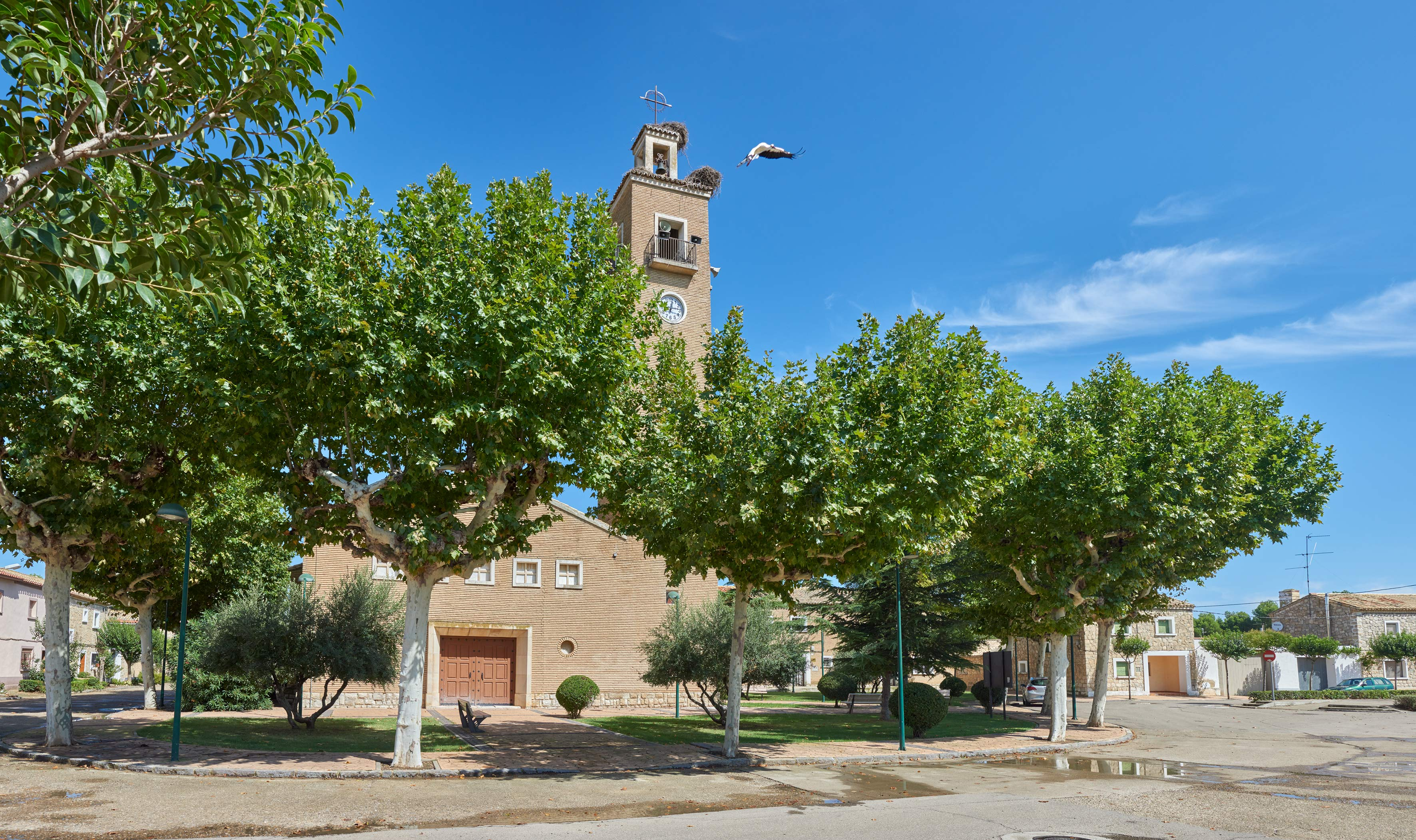 Valareña church